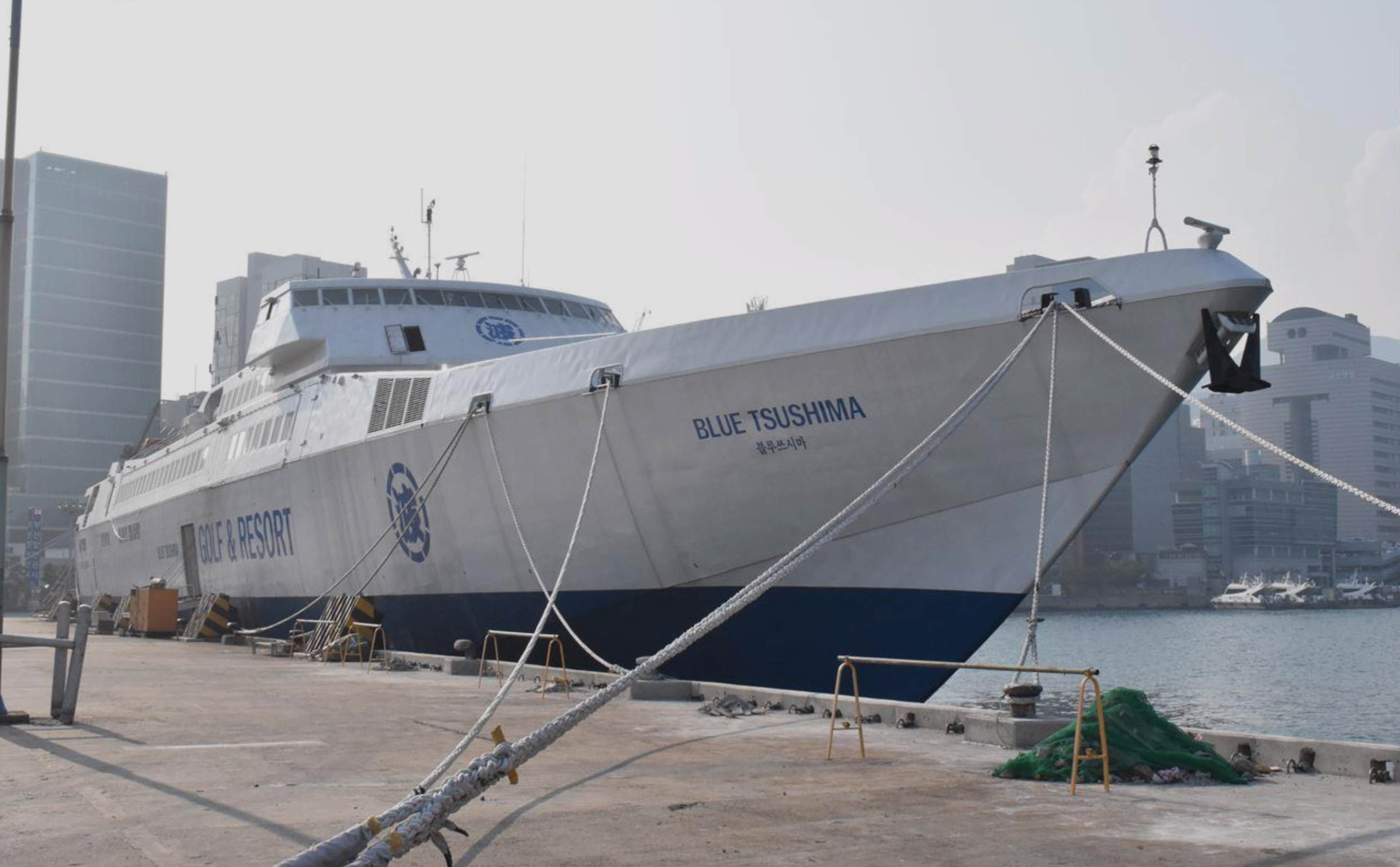 Korean high speed craft Blue Tsushima in Busan